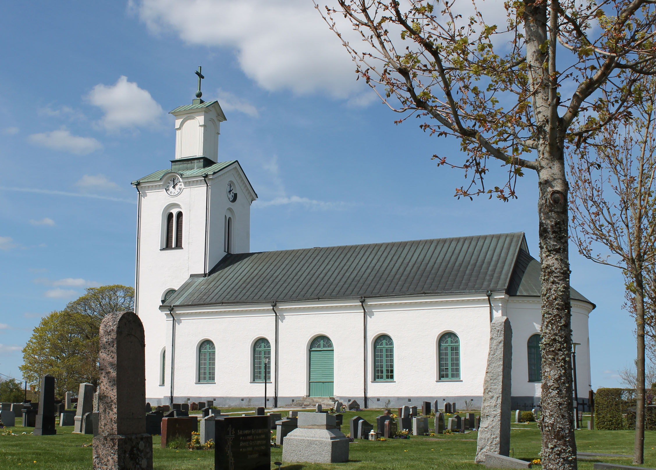 Kalvsvik Church. The Church was built in neo-classical style, designed by Fredrik Wilhelm Scholander. The Church was in use as early as 1852 but was inaugurated not until 1861 by Bishop Henrik Gustaf Hultman.